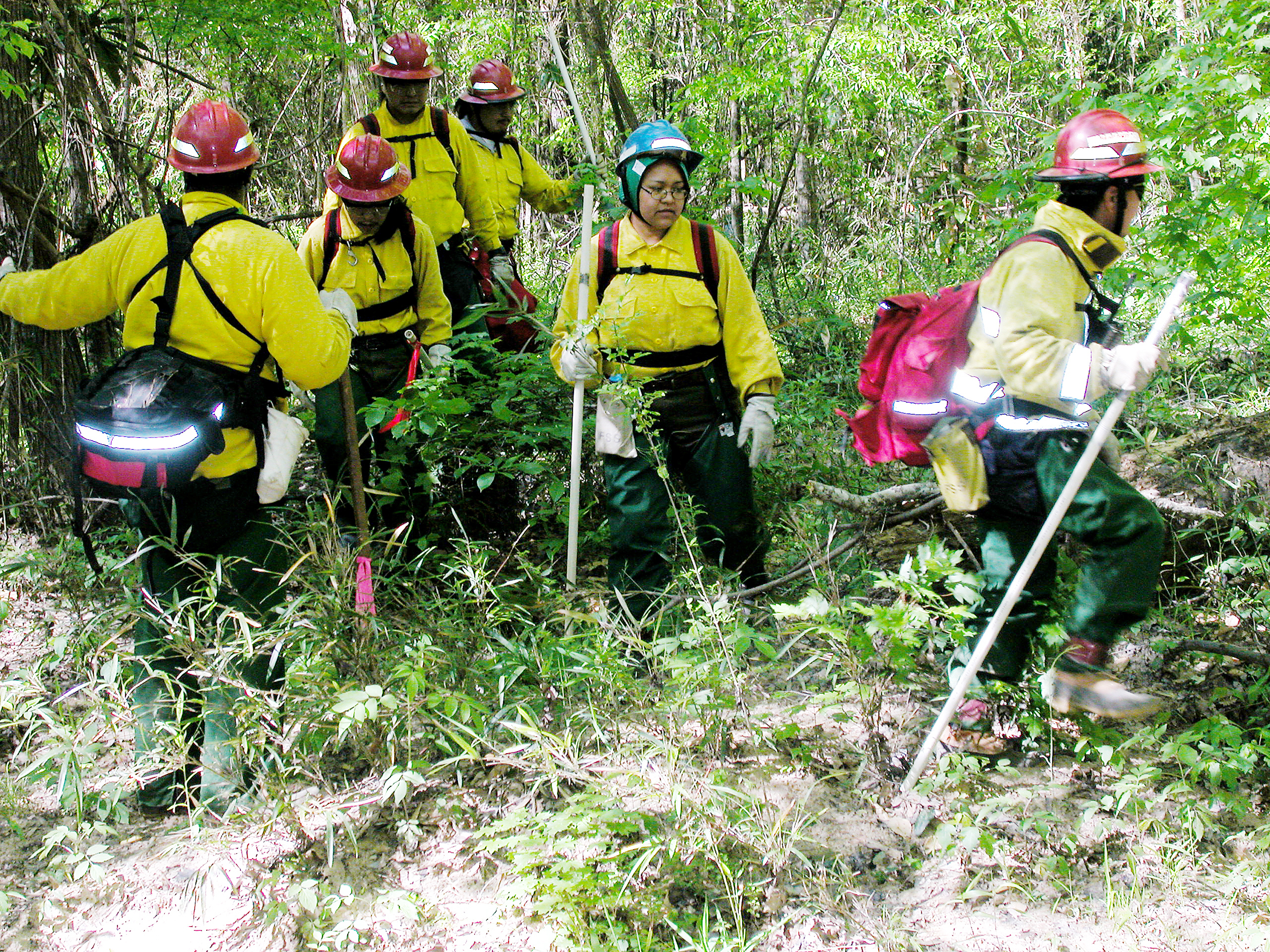 Members of a US Forest Service search team walk a grid during a Columbia recovery search near the Hemphill, Texas site. The group is accompanied by a space program worker able to identify potential hazards of Shuttle parts. Workers from every NASA Center and numerous federal, state, and local agencies searched for Columbia's debris in the recovery effort. For more information on STS-107, please see GRIN Columbia General Explanation.